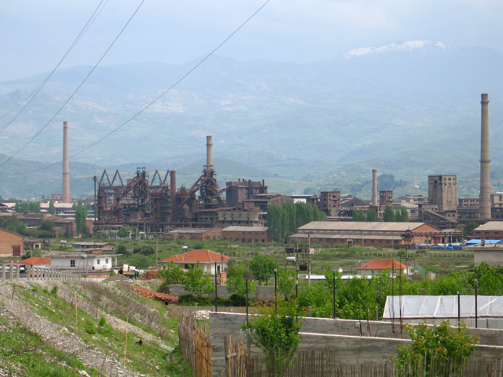 City of Elbasan, Albania